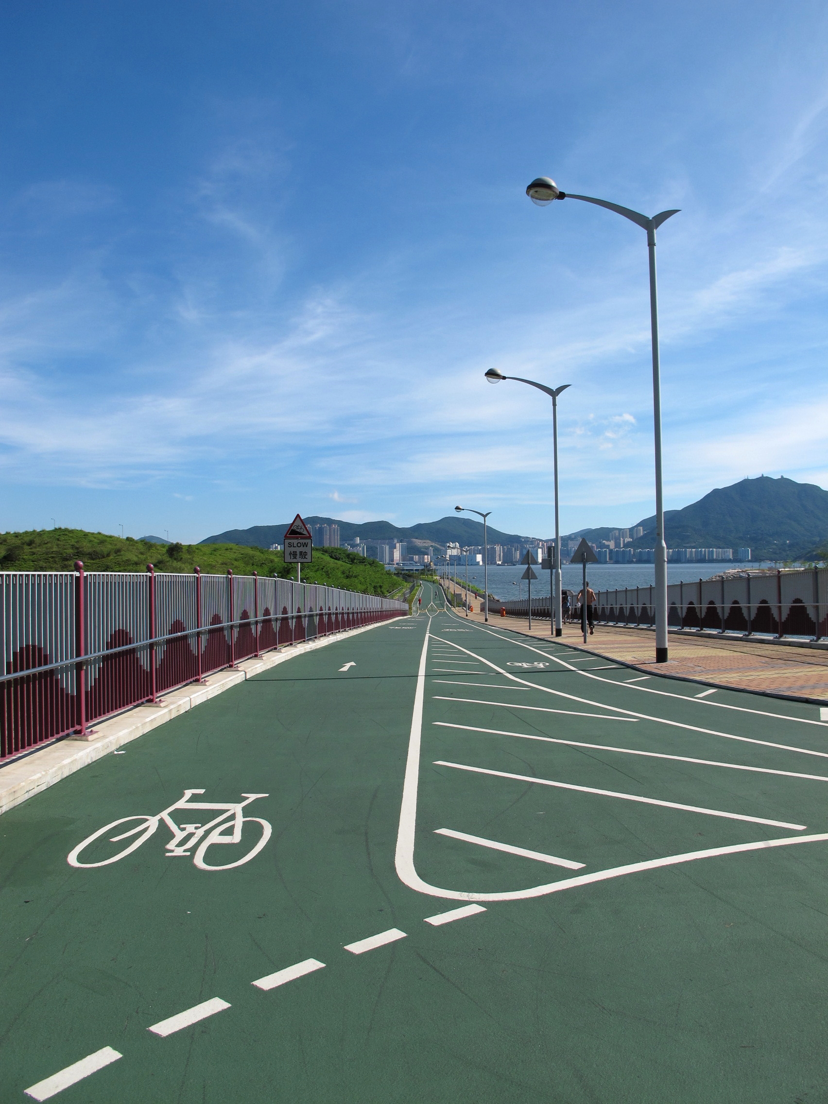 Tseung Kwan O South Waterfront Promenade